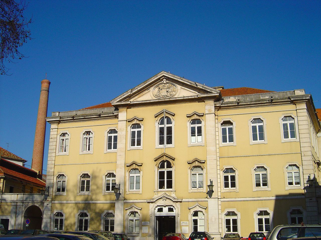 See where this picture was taken. [?]